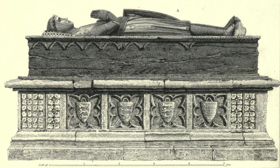 Tomb of William de Valence, 1st Earl of Pembroke, in Westminster Abbey